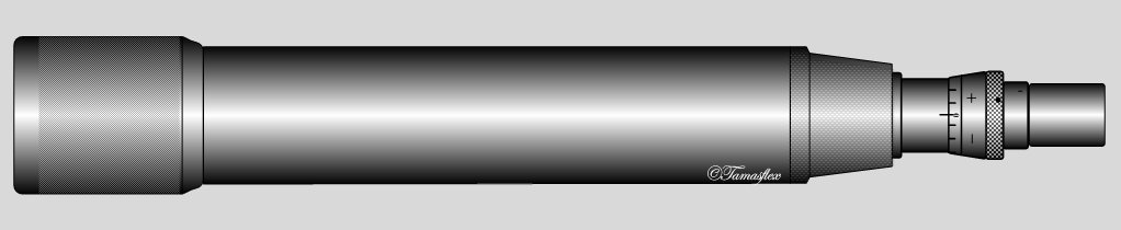 Telescope.